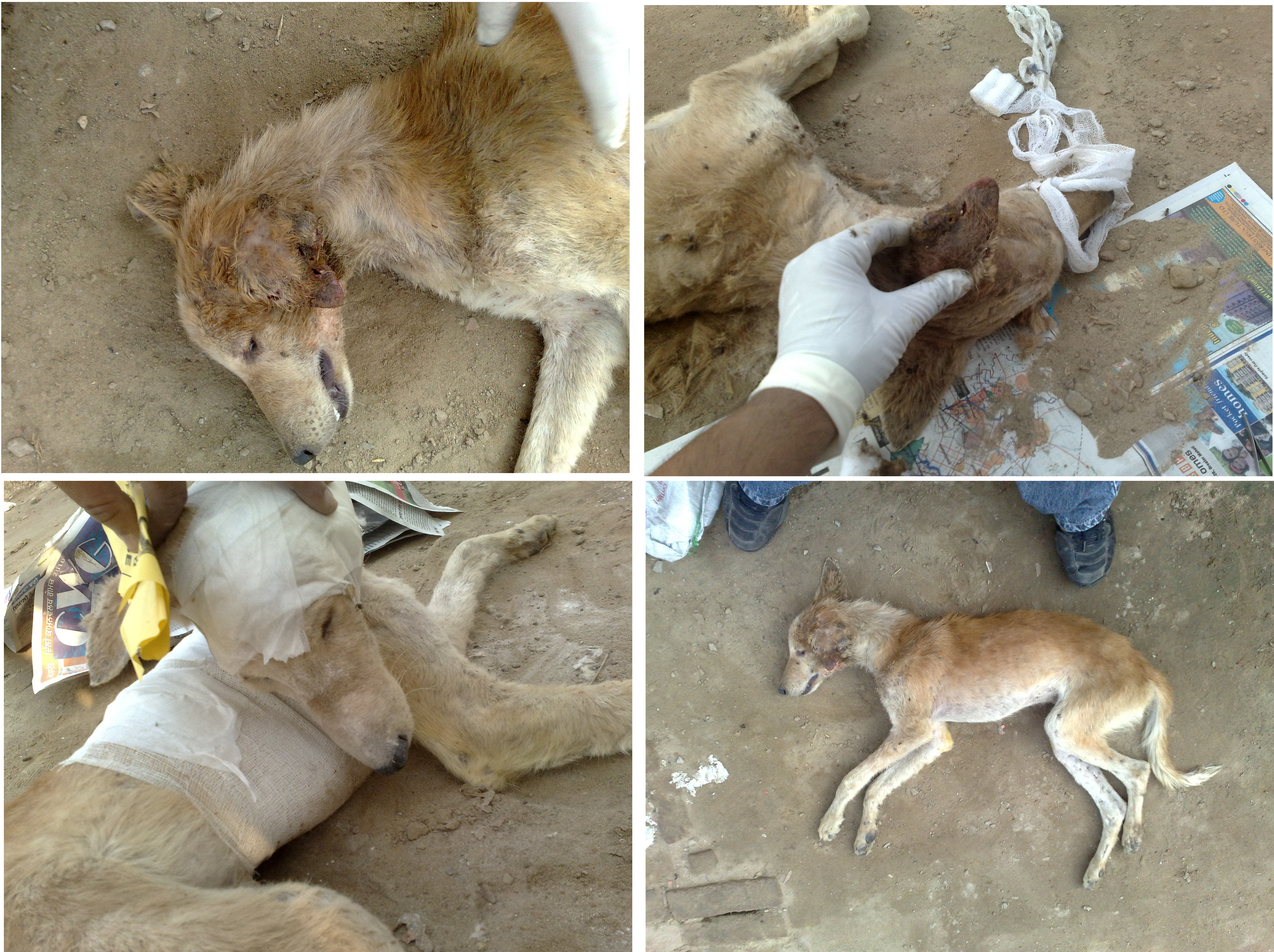 These stray animals were treated and cared by Ravi Gill president p.f.a khanna free of cost